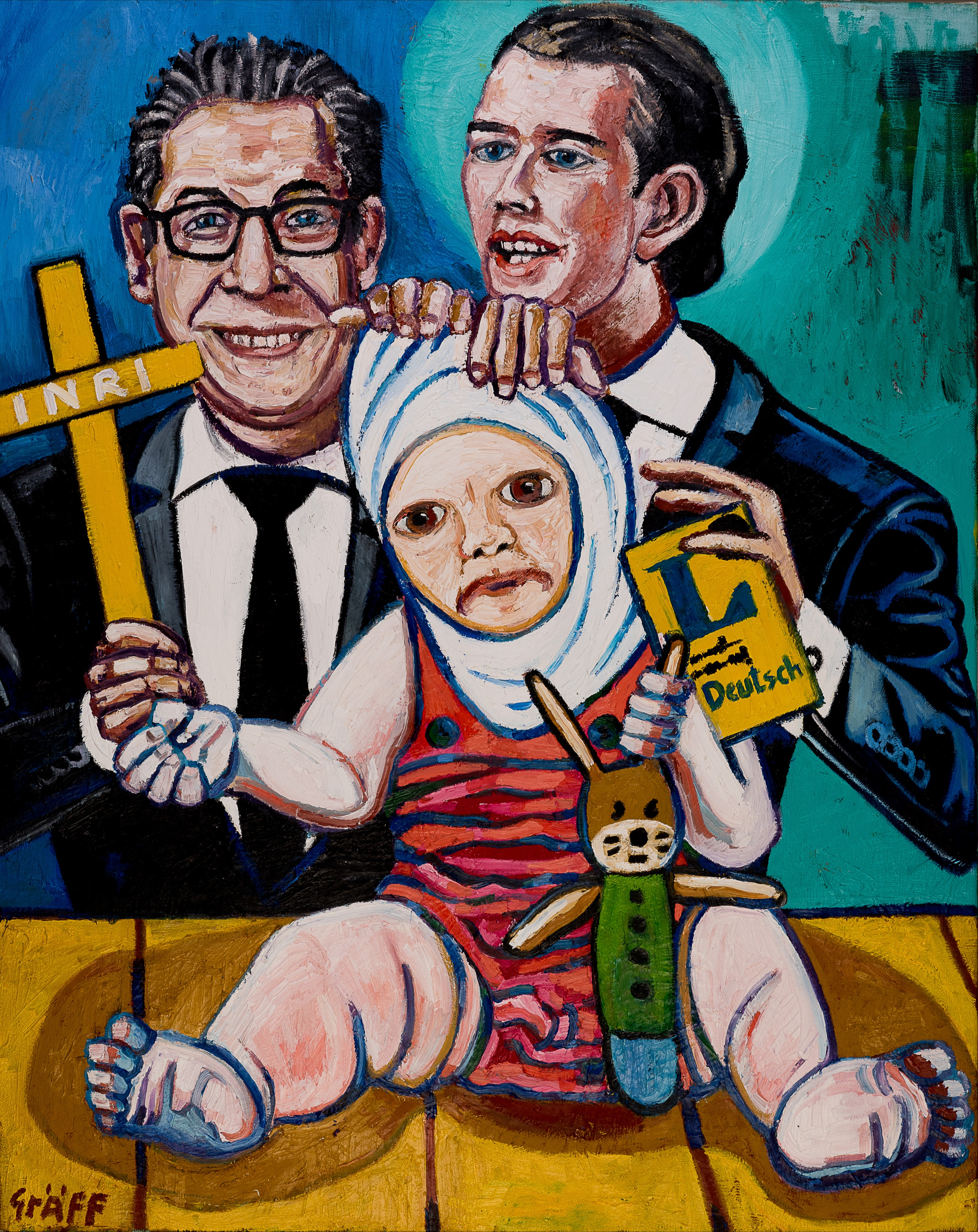 Matthias Laurenz Gräff, "Liebende Eltern", oil on canvas, 100x80cm, 2018. Das Gemälde symbolisiert die Kopftuchdebatte die seitens der österreichischen Bundesregierung geführt wird, und zeigt hierbei Kanzler Sebastian Kurz mit Vizekanzler Heinz-Christian Strache die beide ein vehementes Burkaverbot einfordern. In der Mitte befindet sich ein sitzendes Kleinkind muslimischen Glaubens, dem die beiden Staatsmänner dessen Burka gewaltsam abziehen. Als Liebende Eltern halten sie aber erbauliche und erzieherische Maßnahmen in Form des christlichen Kreuzes und einem Deutsch-Wörterbuch in den Händen. Dieses Gemälde ist weder als pro noch als kontra zu diesem Thema zu sehen, es zeigt vielmehr die aktuelle innerpolitische Debatte auf.